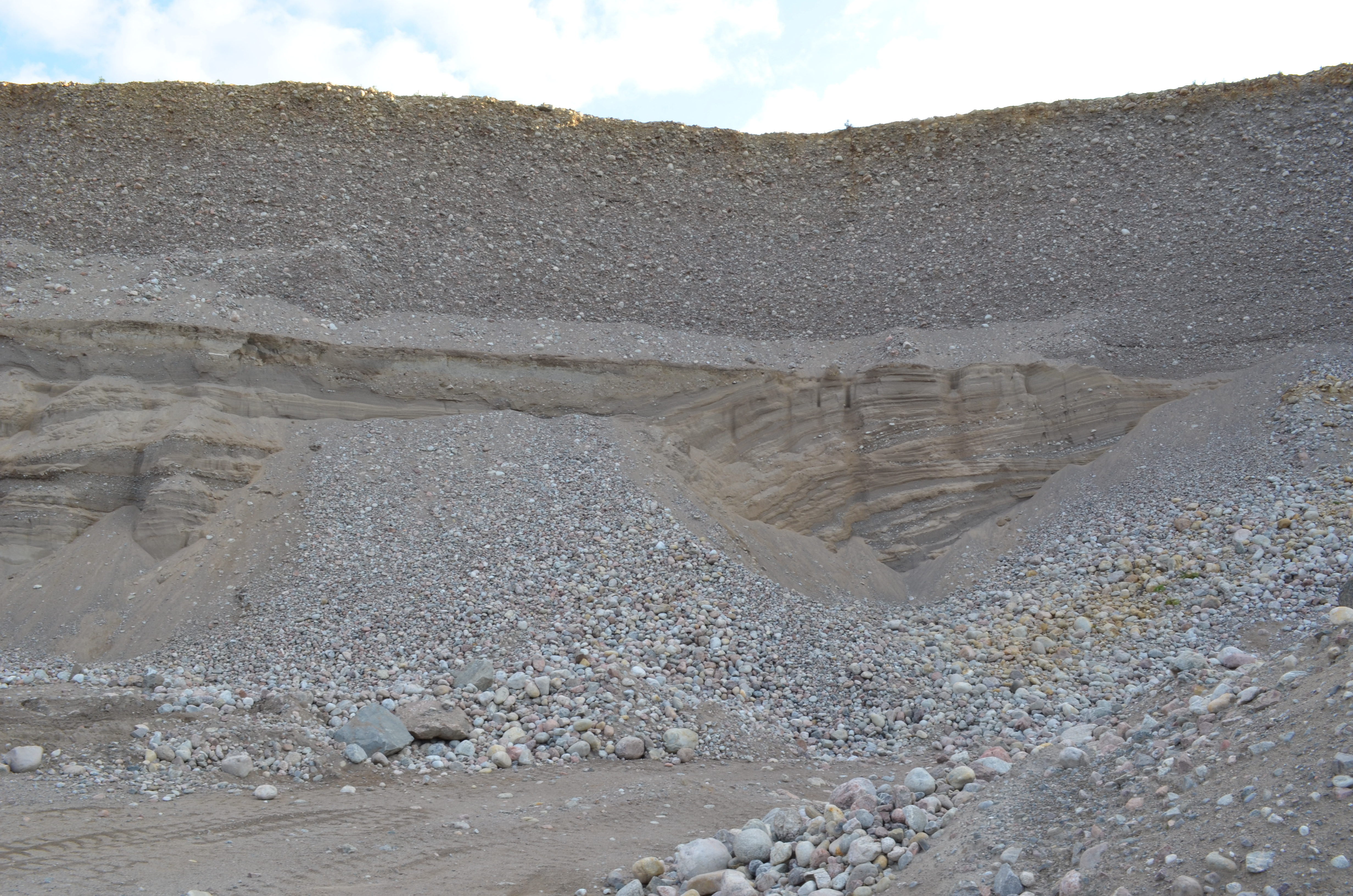 Esker in cross